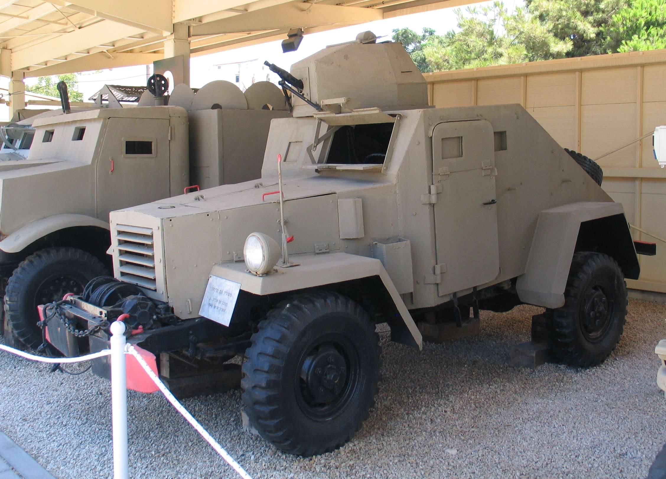 Batey ha-Osef museum, Tel Aviv, Israel.